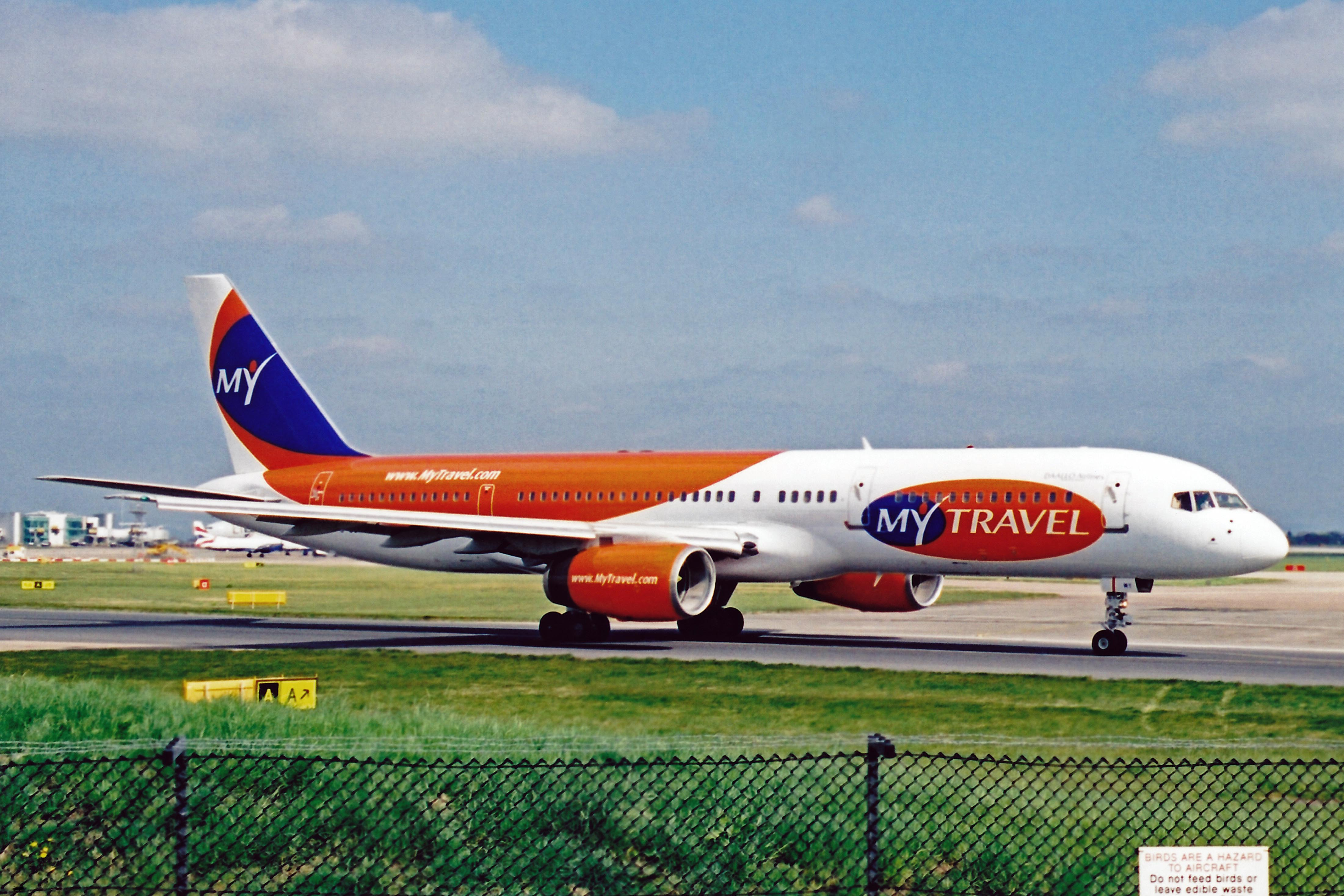 With additional small, and rather indistinct, 'Daallo Airlines' titles by the forward door.